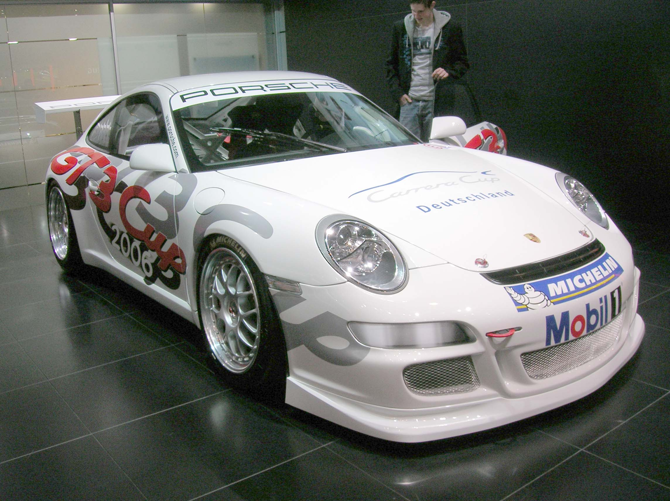 76th international Motorshow Geneva 2006 - Porsche 911 GT3 Cup